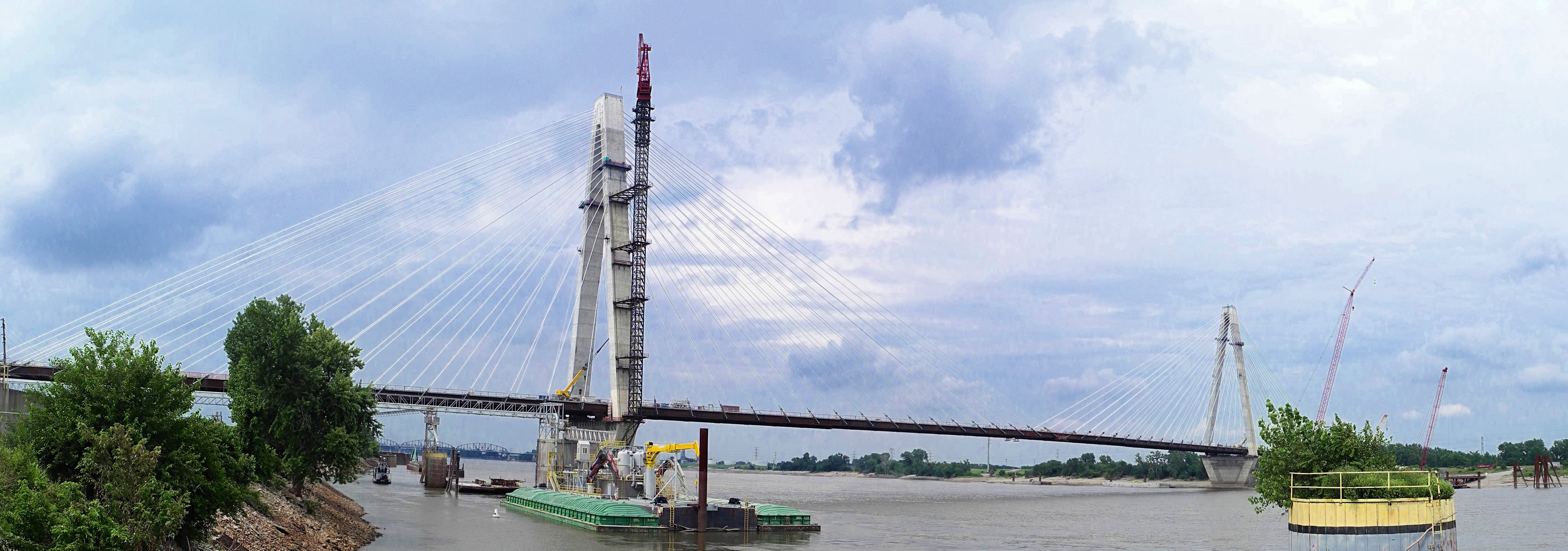 The Stan Musial Veterans Memorial Bridge over the Mississippi River at St. Louis, Missouri under construction in July of 2013.